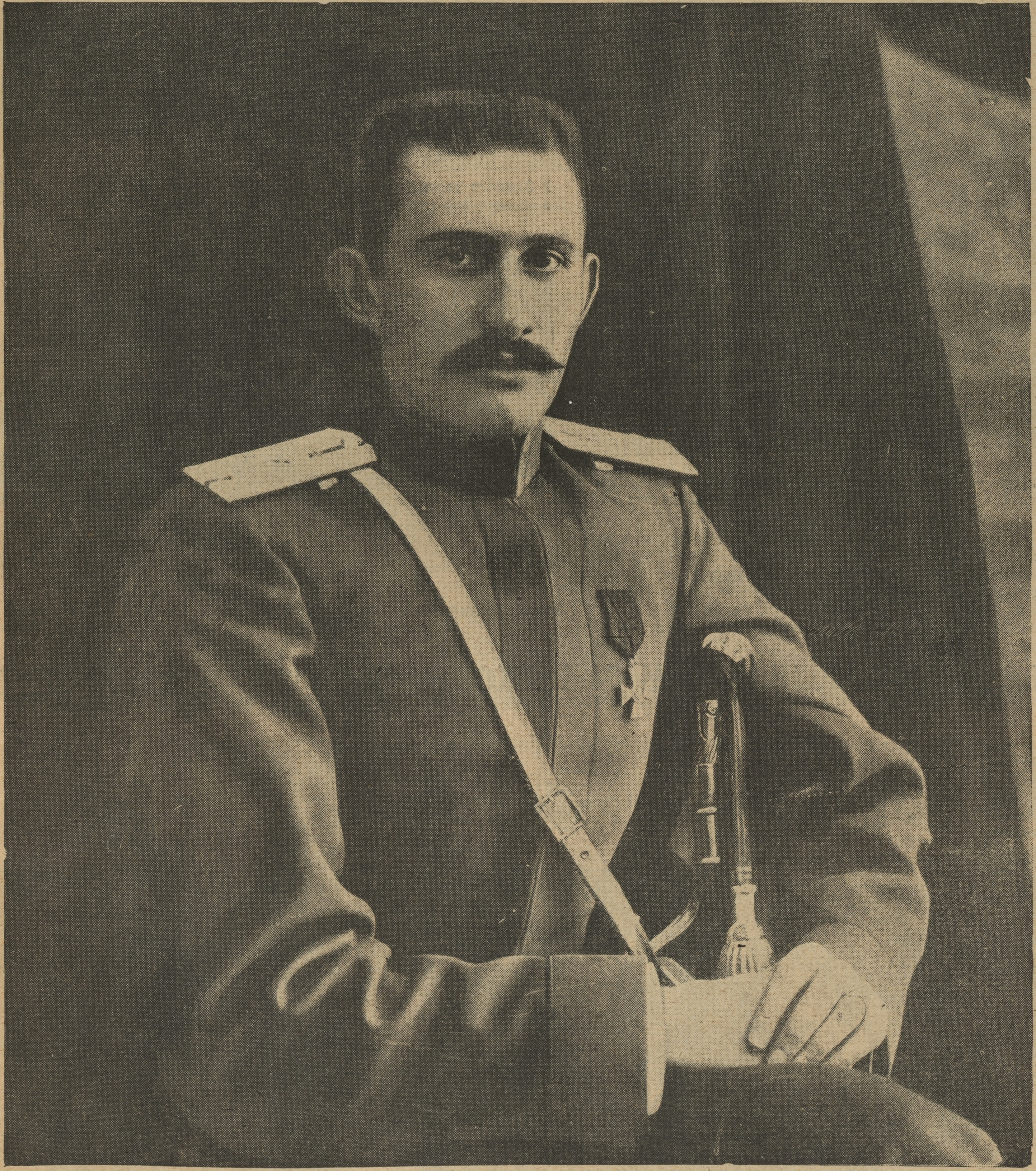 Photo of Oleg Petrovich Vasilkovsky, Russian major general.